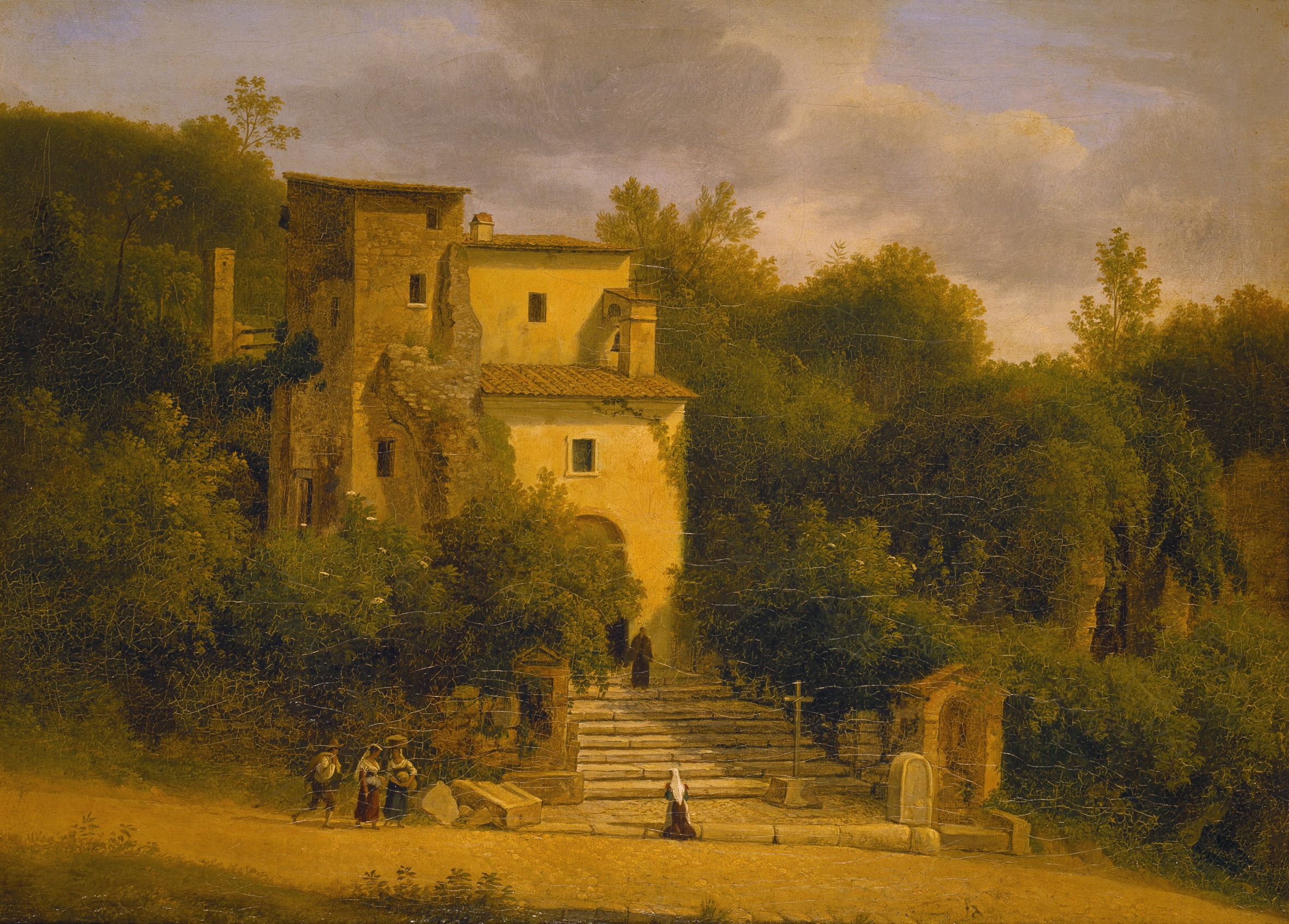 A chapel on the road from Albano to Ariccia in Italy.